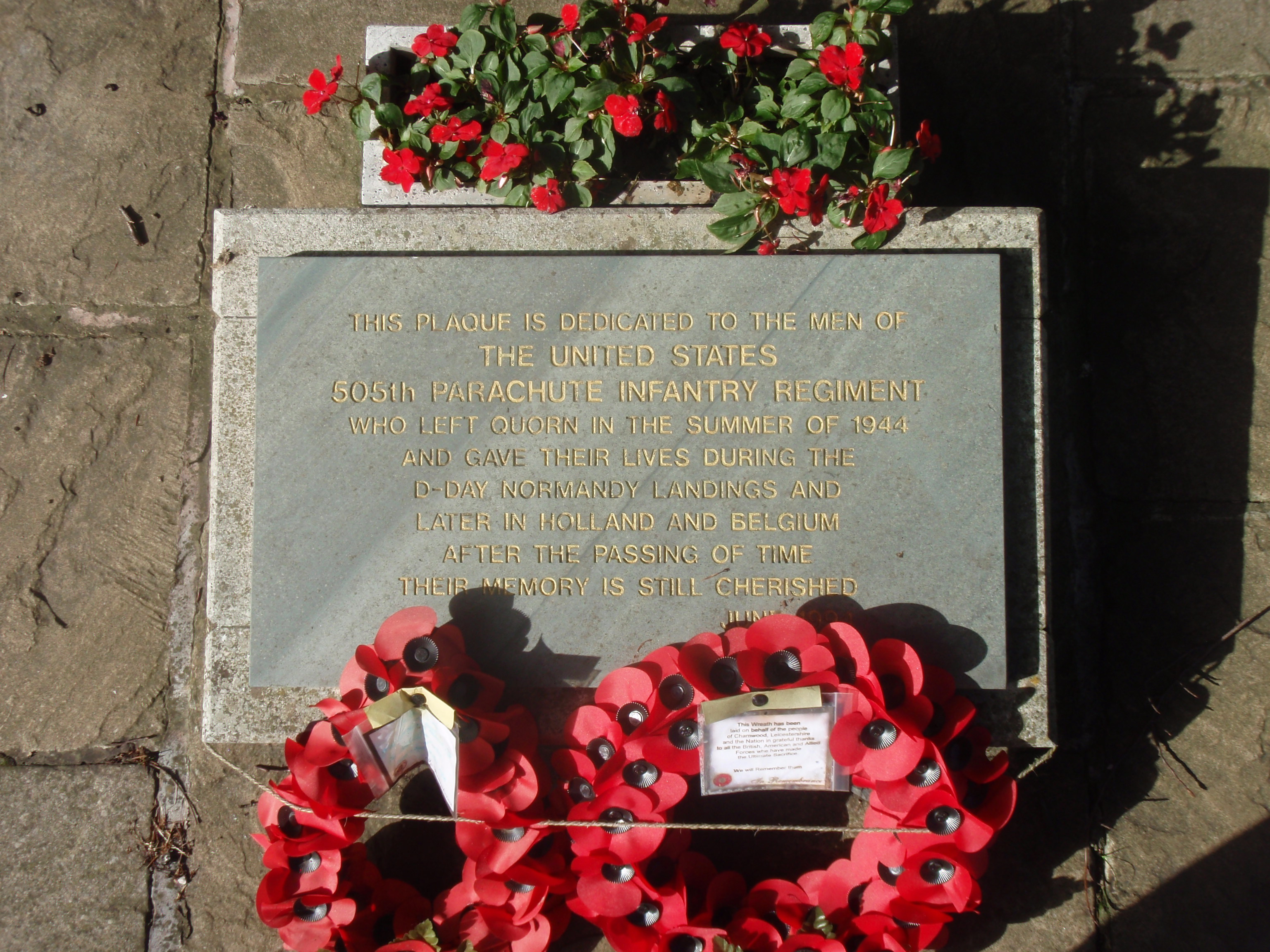 Picture taken by Thomas Willson. Monday, 30 August, 2010.